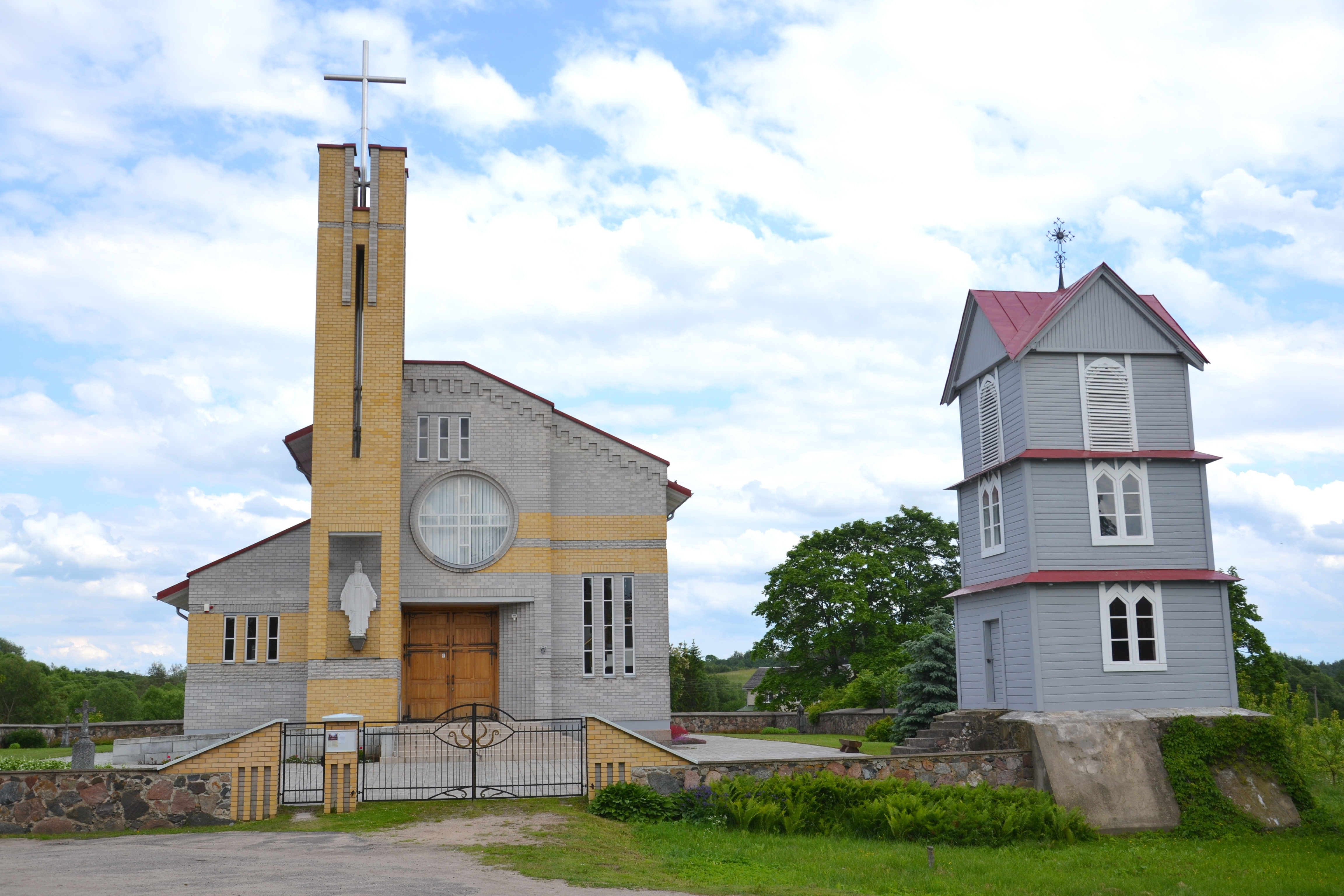 Pakalniai Catholic Church, Utena district, Lithuania